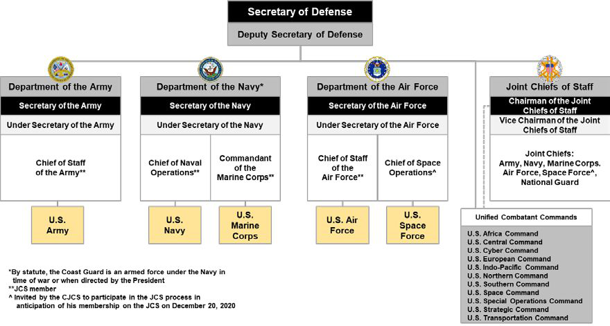 This image represents the placement of the United States Space Force in the greater Department of Defense